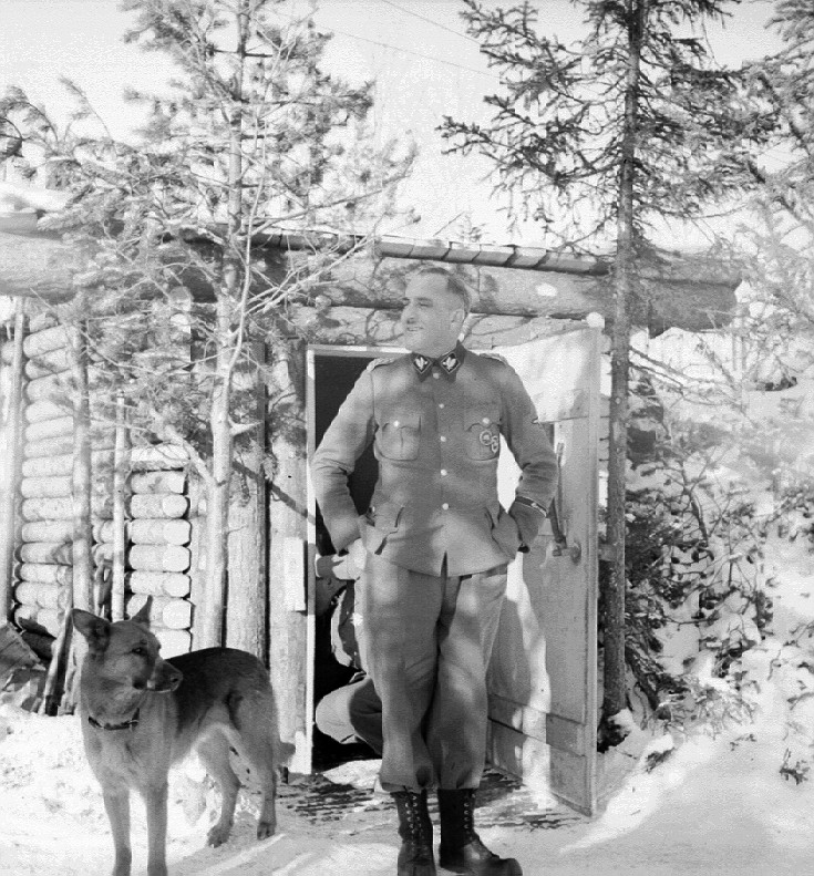 SS-Gruppenführer und Generaleutnant der Waffen-SS Karl-Maria Demelhuber in Finland